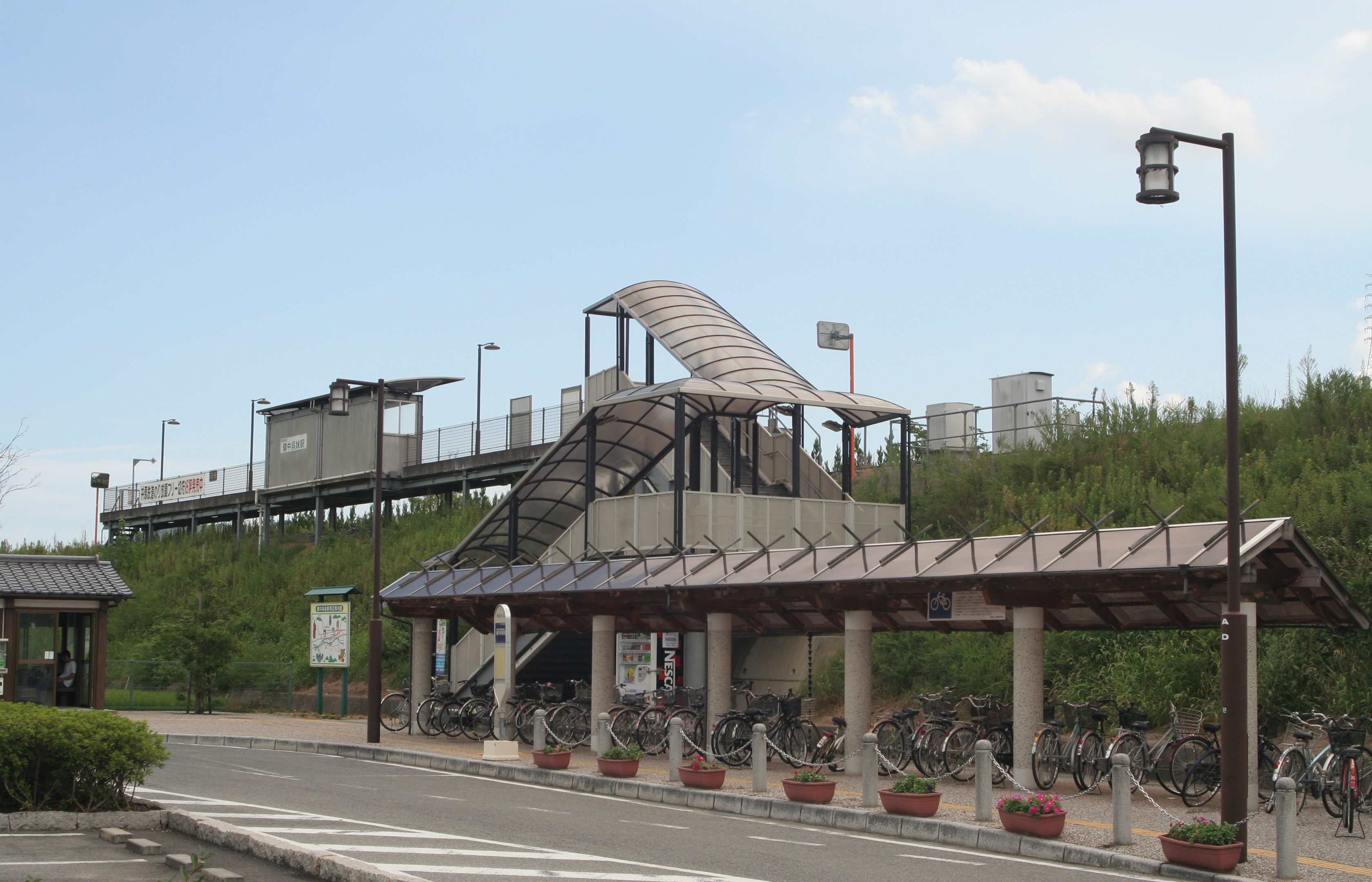 Ibara Railway Bitchu-Kurese Station